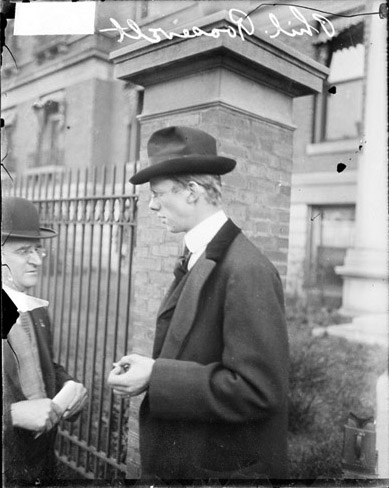 Portrait of Philip Roosevelt, cousin of Theodore Roosevelt, standing at the gate outside Mercy Hospital where his cousin was take after being wounded in a 1912-10-14 assassination attempt in Chicago. Mercy Hospital was located at 2537 South Prairie Avenue in the Near North Side community area of Chicago.